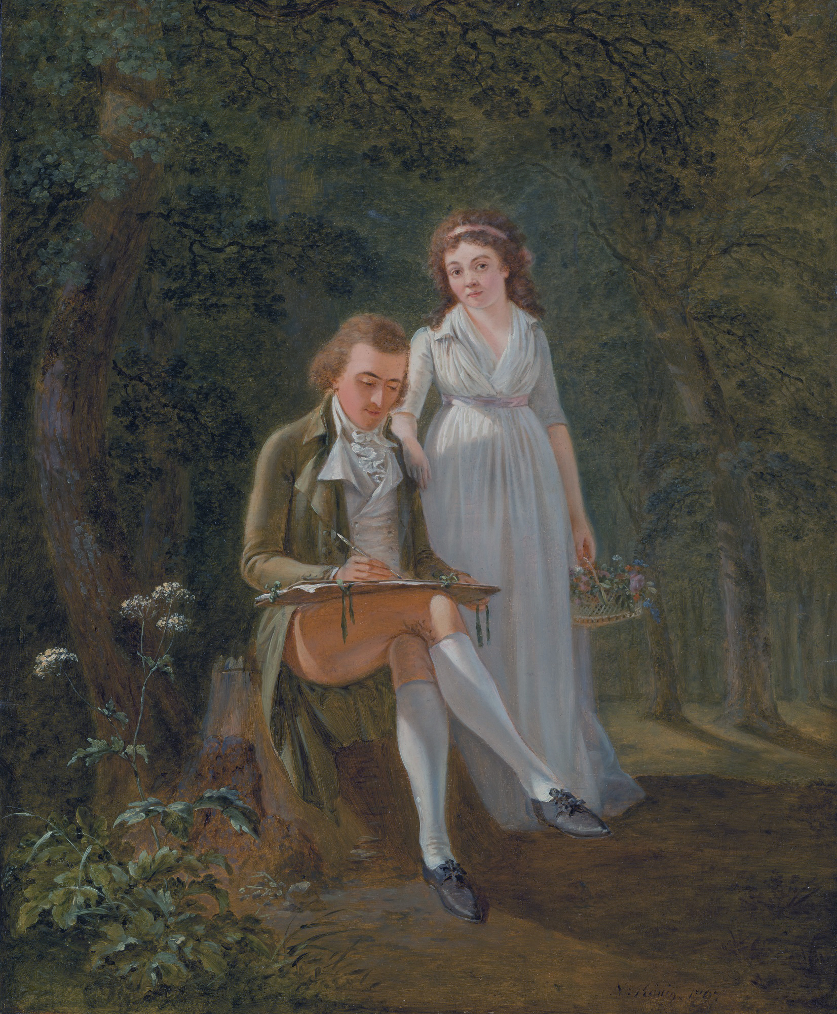 Jean Frédéric d'Ostervald (1773-1850) and his wife, Rose-Marie Alexandrine D'ivernois*oil on panel 56.2 x 46.7 cm signed b.r.: N. König. 1797